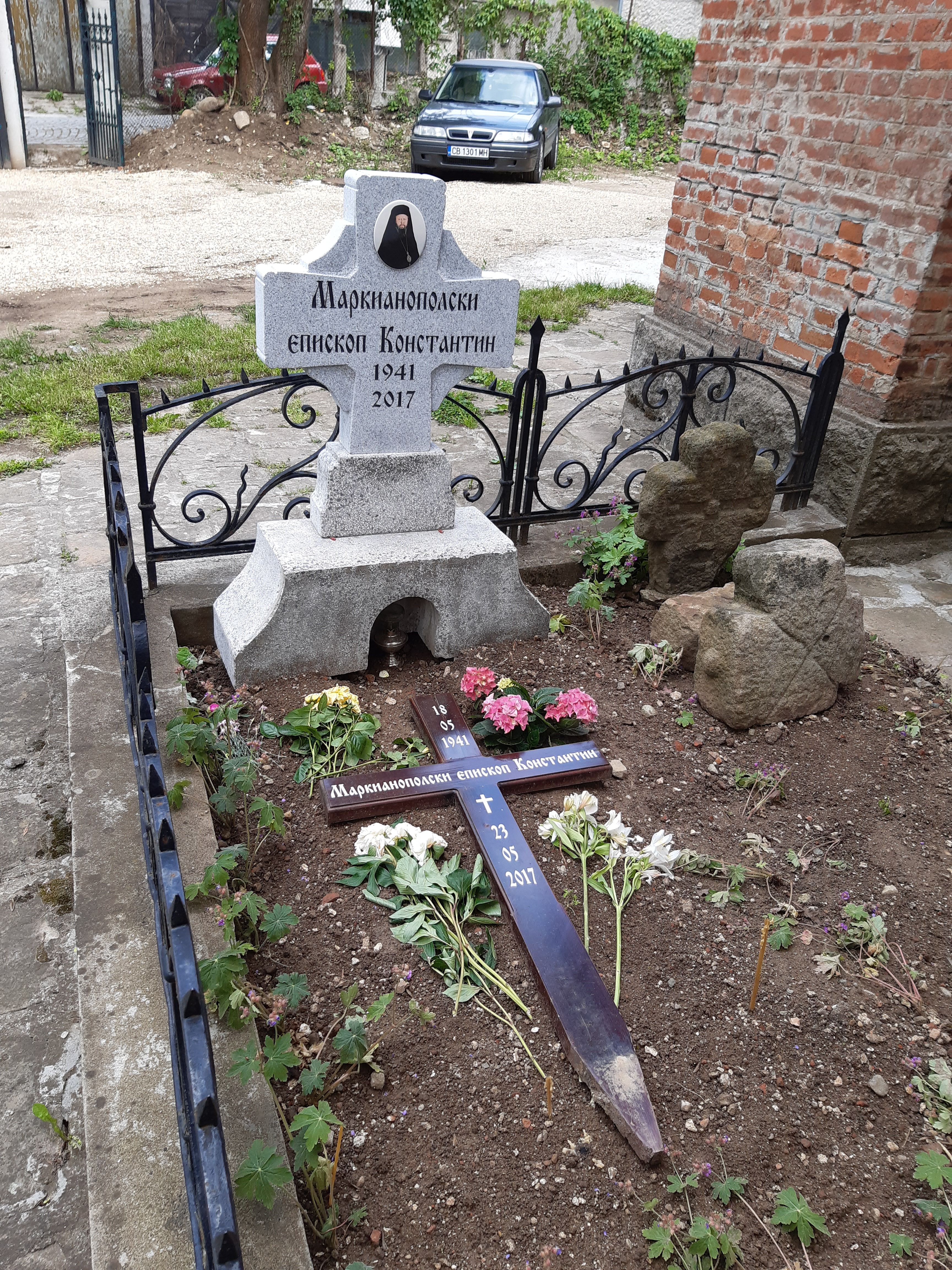 Saint Elijah Church Constantine of Marcianopolis Grave